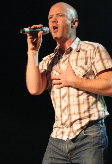 concert in "Skarpa" club in Warsaw